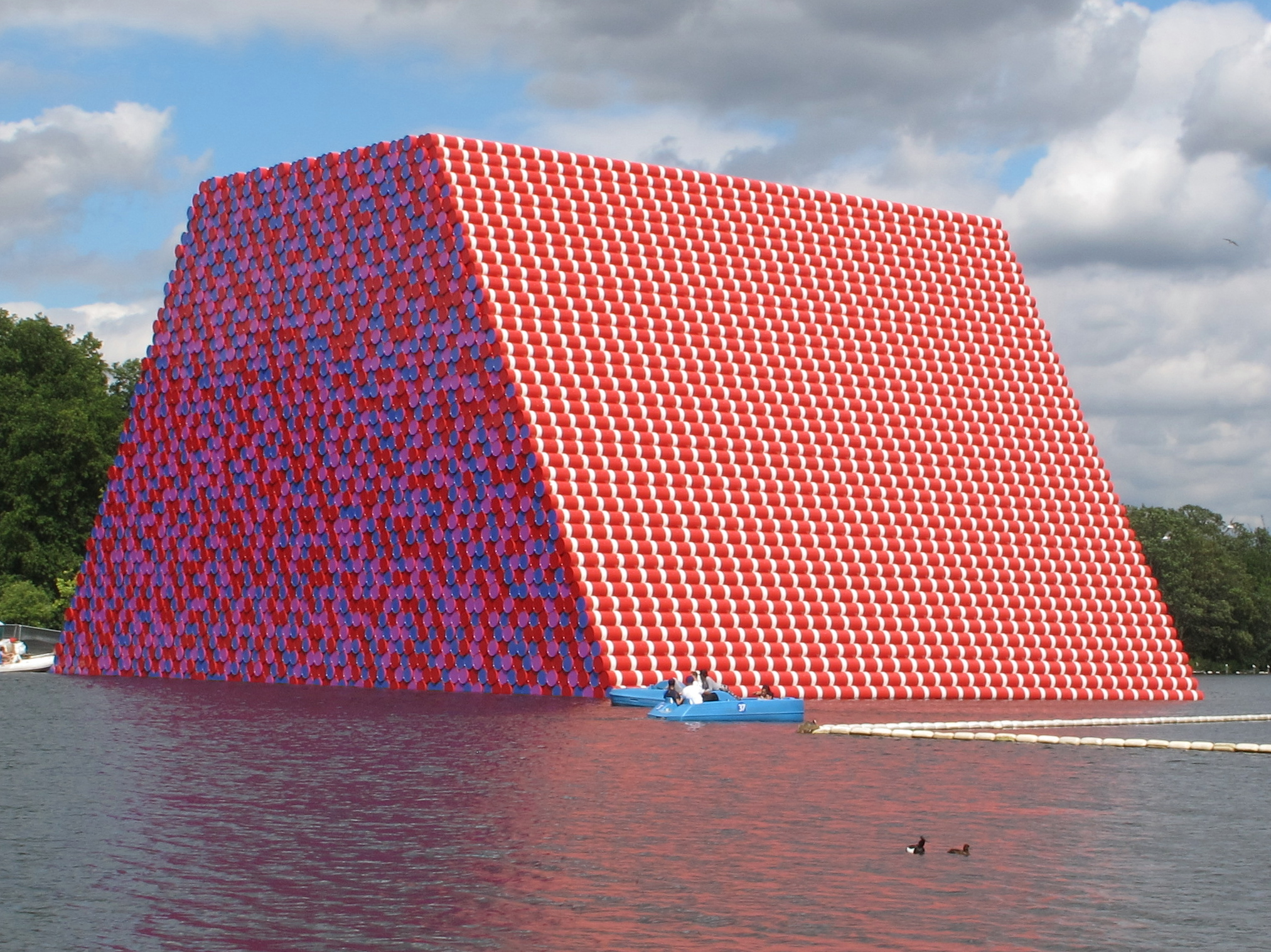 "The Mastaba" massive sculpture, floating in the Serpentine."The Mastaba" by Christo and Jeanne-Claude is a 600-ton array of red, magenta and blue oil drums. The shape is a rectangular pile with sloping sides, vertical ends and a flat top; it is derived from Egyptian tombs of that shape, the name comes from the Arabic for bench. Like other large installations by Christo and Jeanne-Claude it is temporary. The blue boats by The Mastaba are pedalos. See this image for a longer view.